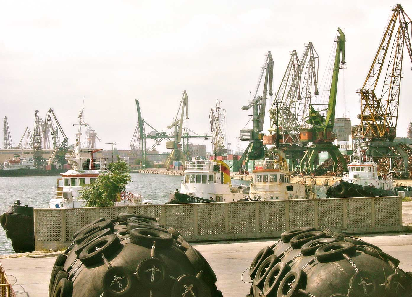 Location: Port Varna, Varna, Bulgaria.